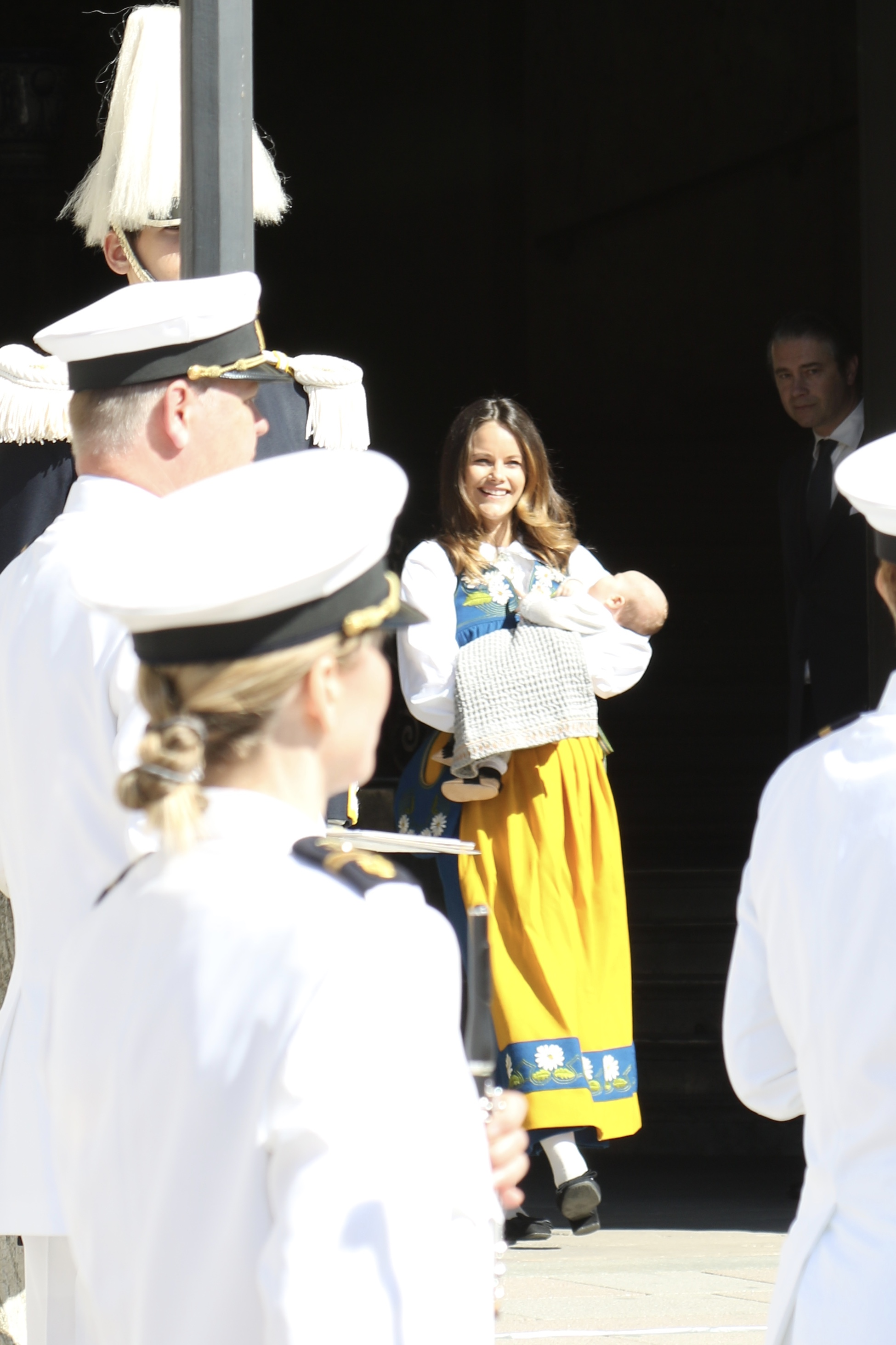 Prince Alexander, held by his mother, Princess Sofia at the opening of the Palace in Stockholm on Swedish National Day